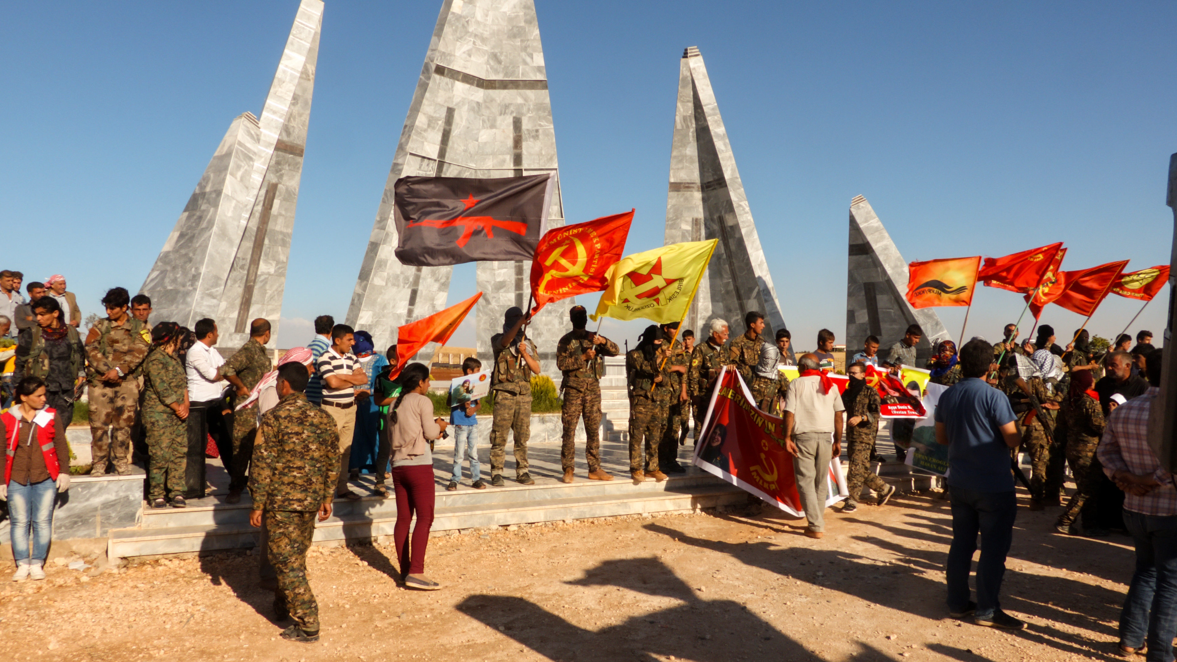 IFB members in the ceremony and burial of Ayşe Deniz Karacagil (Destan Temmuz) of MLKP in Kobanê, Rojava.